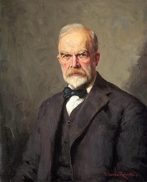 Portrait of Edmond Dyonnet